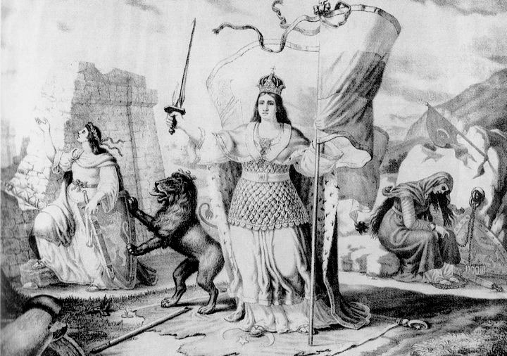 Divided Bulgaria after the Conress of Berlin, аllegorical depiction of Bulgaria: Principality of Bulgaria (in the middle), Eastern Rumelia (leftward) and Macedonia (right at the back), after the Treaty of Berlin in 1879, lithography by Georgi DanchovUnknown "раздлена българия от берлинския конгрес", литография от георги данчов